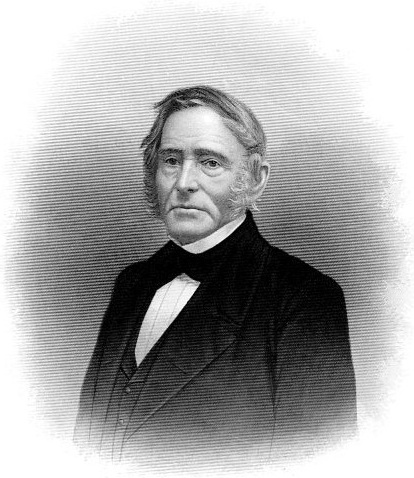 Governor Elisha Harris